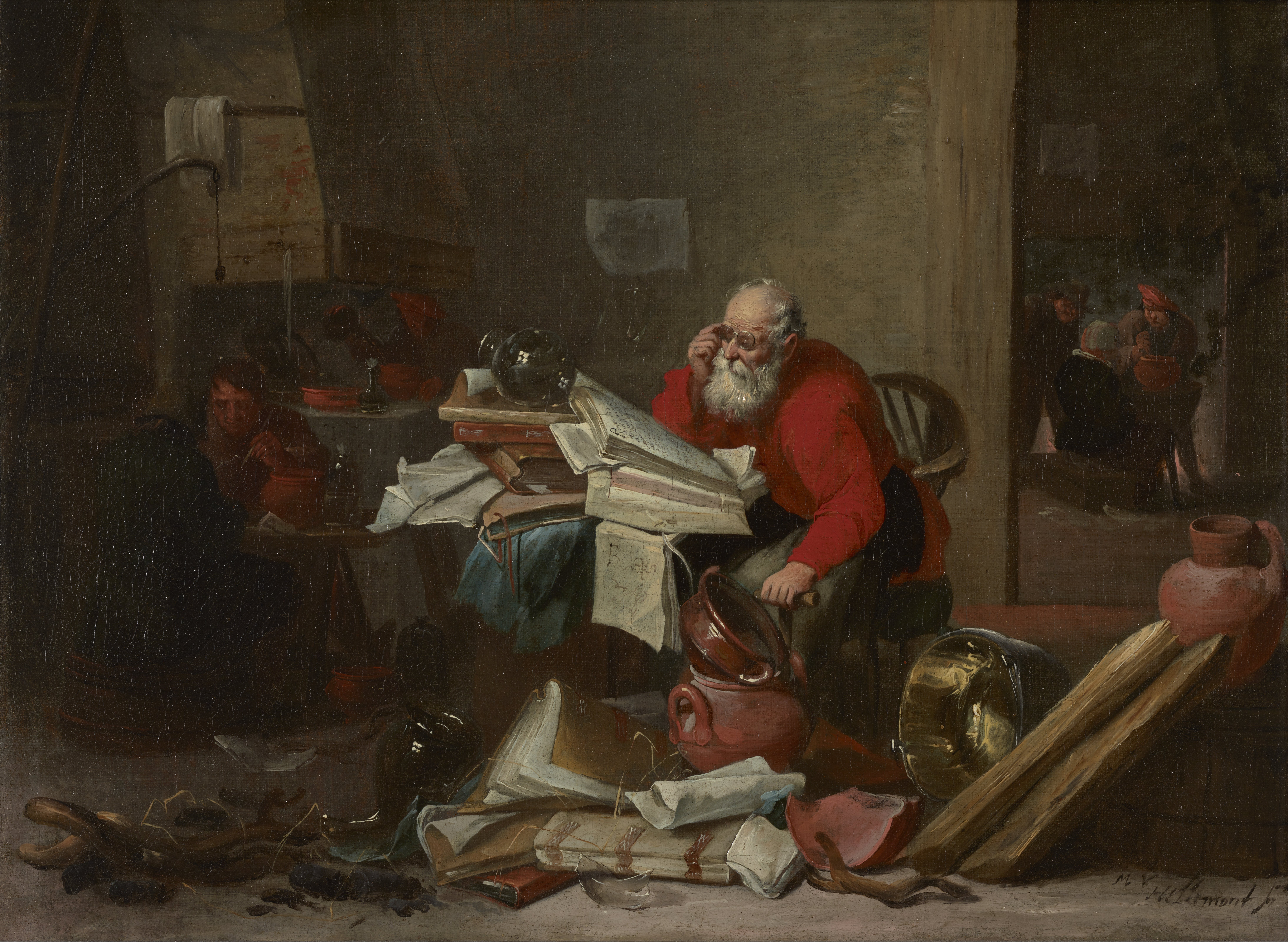 The Alchemist by Mattheus von Helmont (Antwerp 1623-After 1679, Brussels) Oil on Canvas. A bearded seated man facing three quarters left, with glasses and bright red shirt, bends over open book on desk stacked high with mess of books, papers, glassware. More of same at his feet plus broken and unbroken crockery, large copper pan, and strands of straw throughout. At left middle ground two men at table; behind them a man stands by a large furnace and pours from one vessel into another. To right in background through partition are three men around a free standing small furnace heating a pot. Van Helmont was a follower of Adrien Brouwer and David Teniers II. Popular subjects for these artists include peasant interiors, alchemists, doctors, and craftsmen at work.